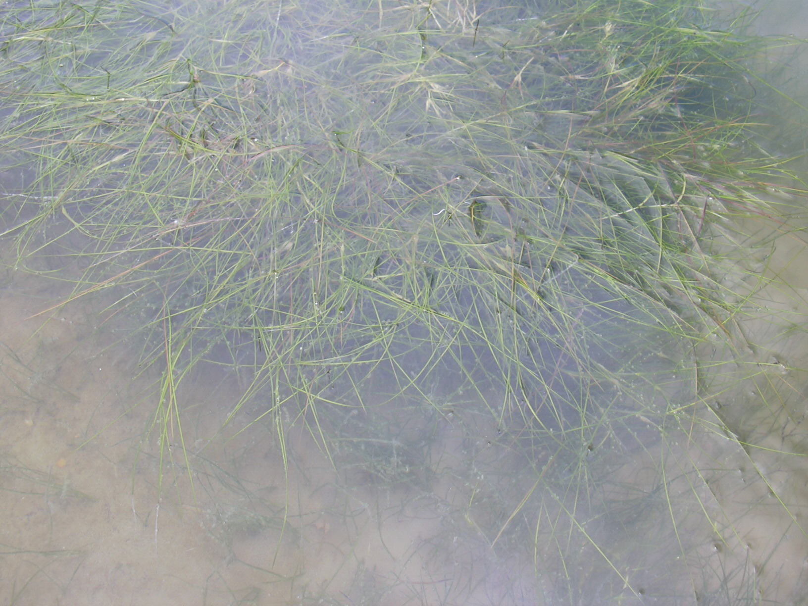 Ruppia maritima (Ditchgrass) In anchialine pond at LaPerouse, Maui, Hawaii. April 10, 2004 #040410-0254 Image Use Policy